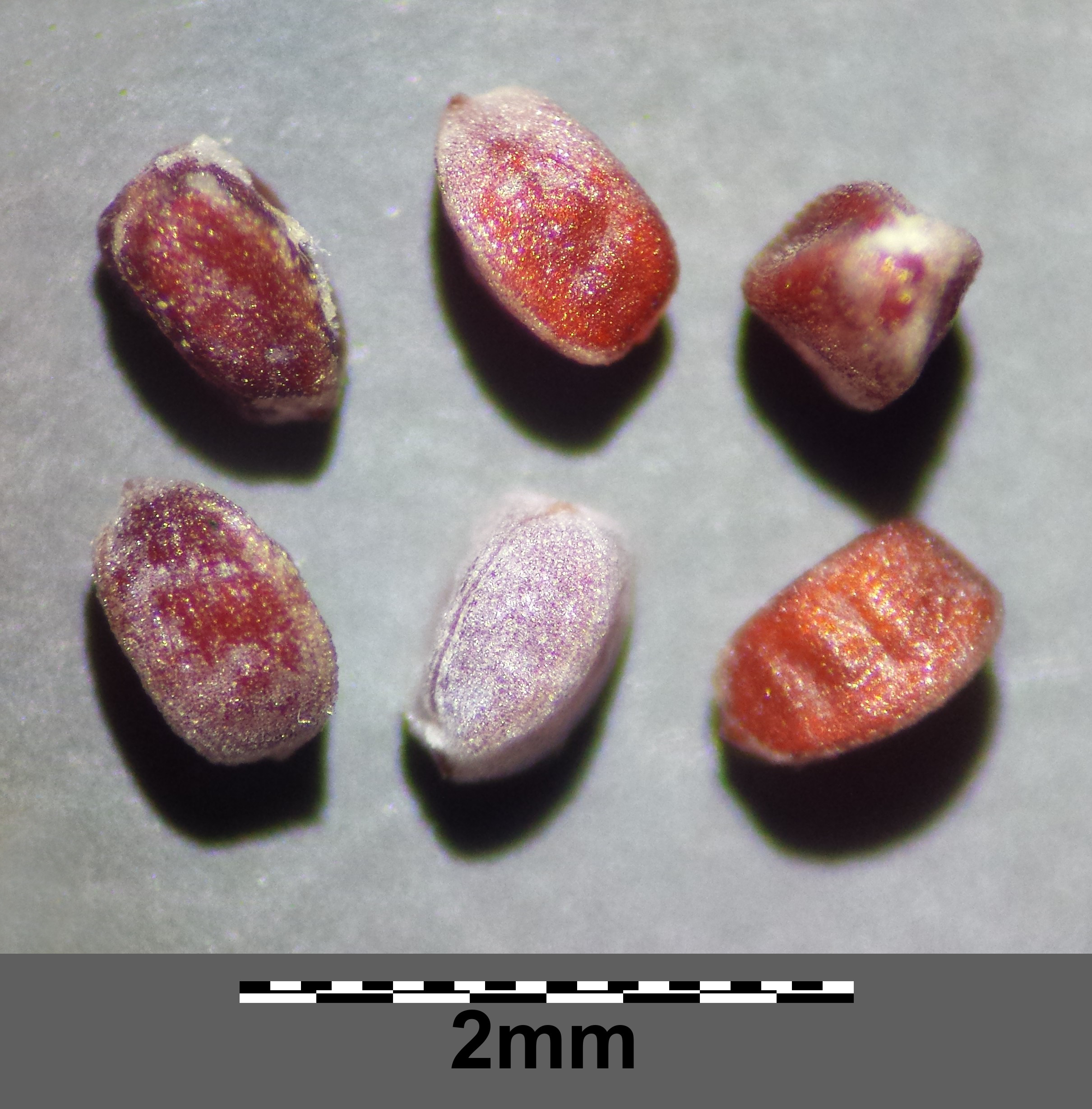 Seeds with flat furrows Taxonym: Euphorbia maculata ss Fischer et al. EfÖLS 2008 ISBN 978-3-85474-187-9 Location: next to Mitterreith, district Zwettl, Lower Austria - ca. 500 m a.s.l. Habitat: heap of stones